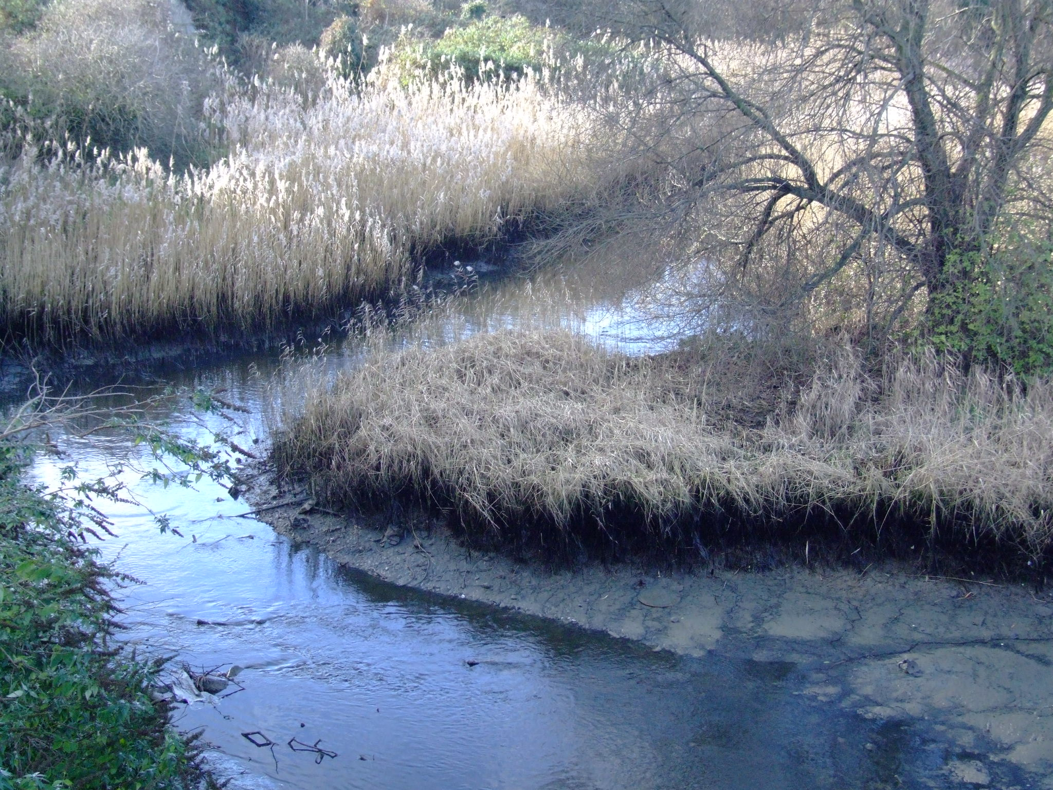 Northfleet merges with Gravesend in Kent. It is on the River Thames estuary. The shore has been excated for chalk, and heavy industry used the recovered land.. The Ebbsfleet River enters the Thames in a pipe through the sea wall. This is just before it reaches the wall.. - OpenStreetMap(Info)